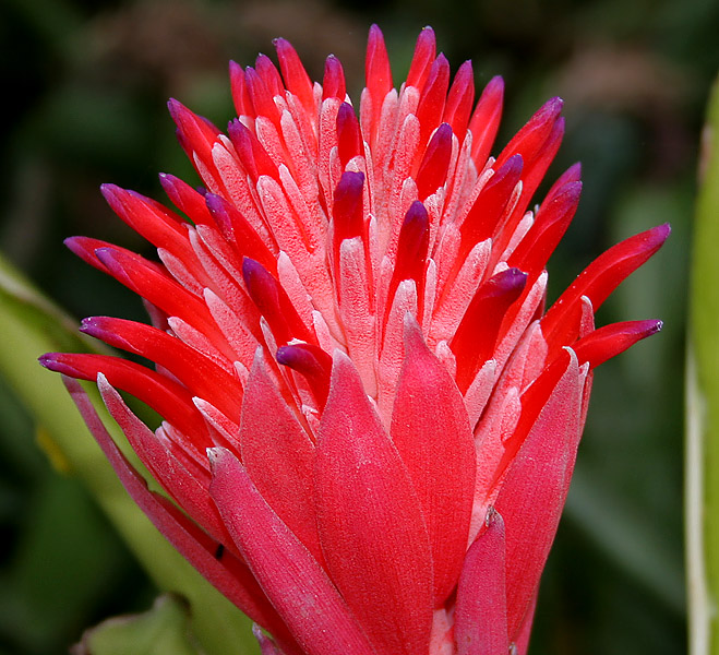 Foolproof Plant, Flaming Torch or Summer Torch Billbergia pyramidalis in Hyderabad, India.